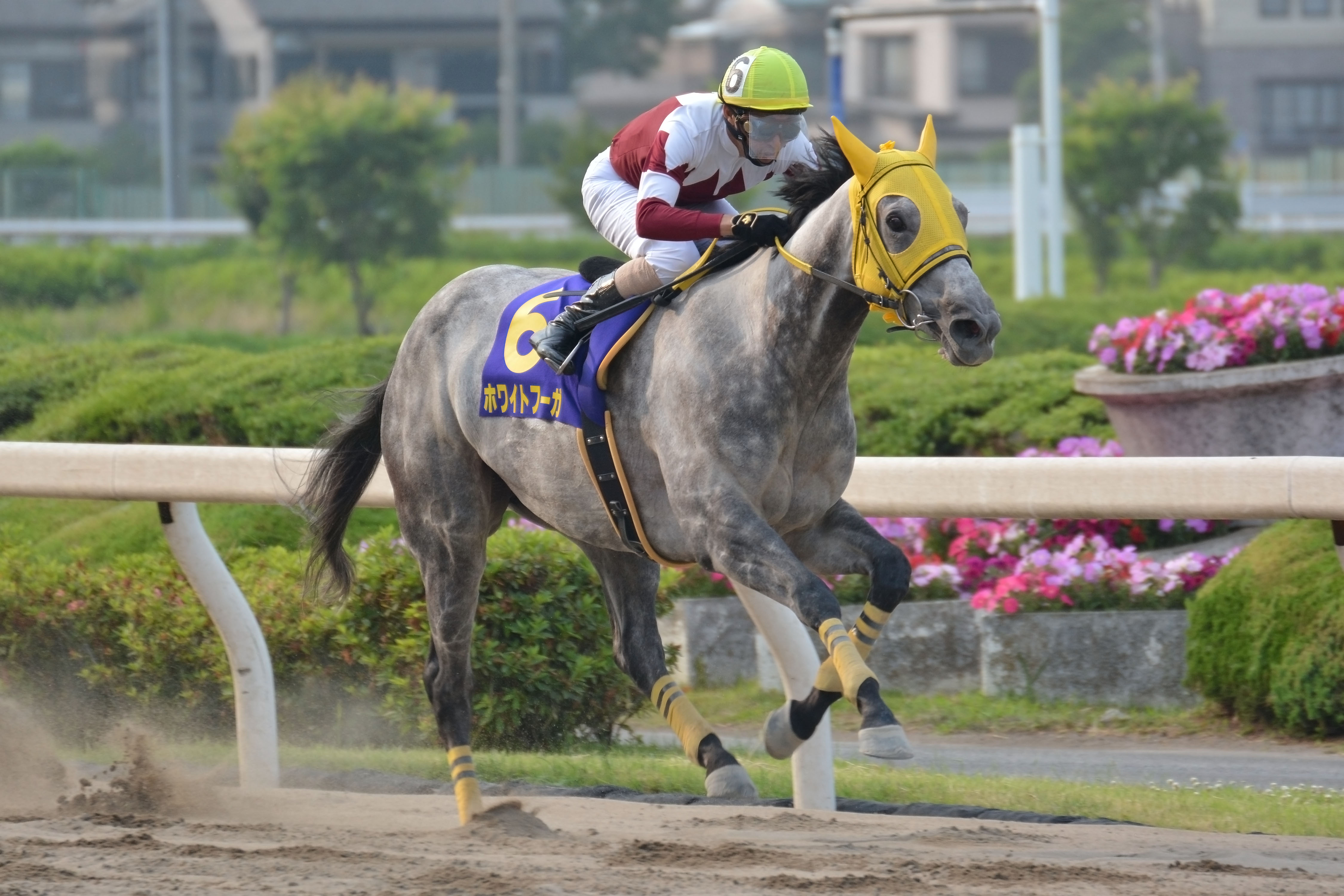 Japanese racehorse White Fugue at Urawa racecourse(2017-05-31).